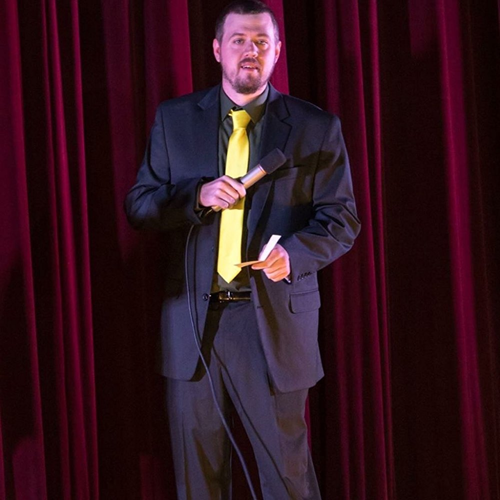 Director Adam R Steigert at an event for his film STAR [Space Traveling Alien Reject] This photo was taken April 2017